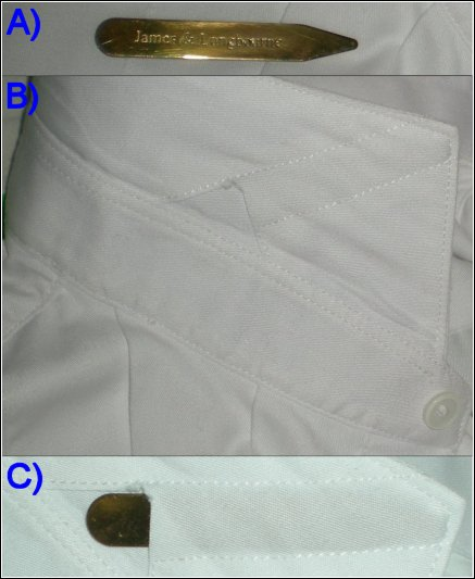 Collar Stays - explained.